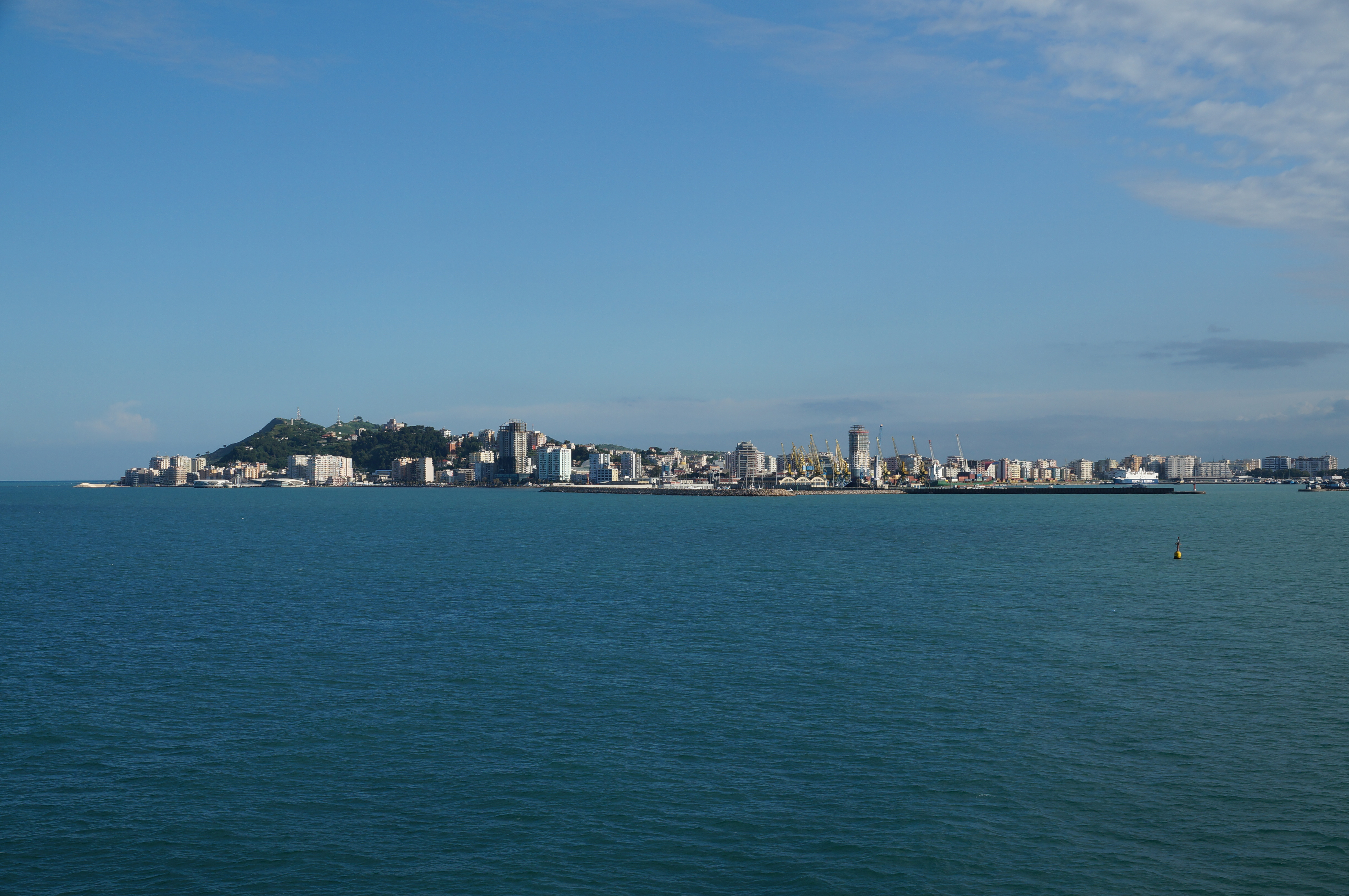 Durrës seen from the sea